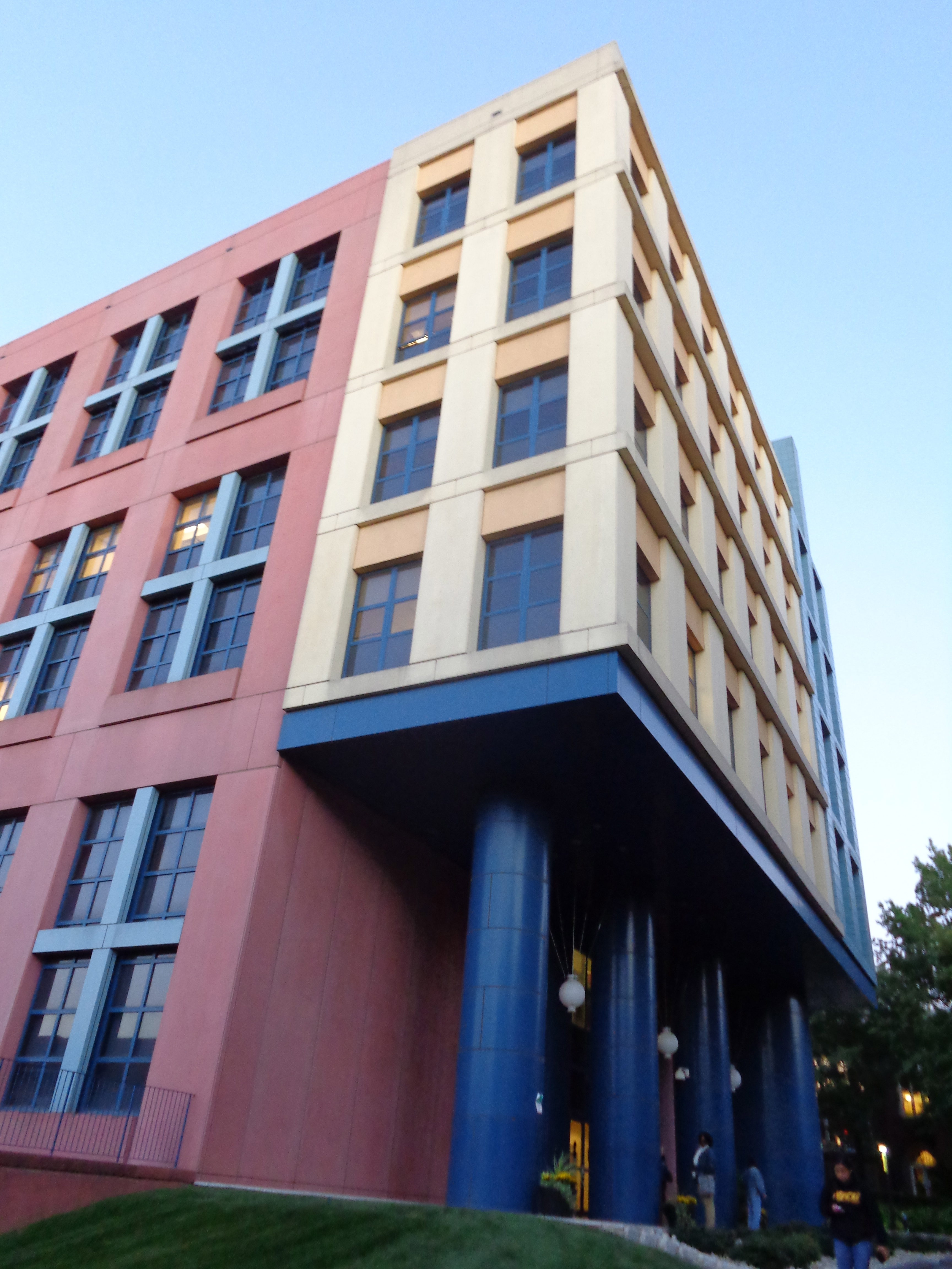 Six-story Karnoutsos Arts & Sciences Hall at New Jersey City University, Jersey City, designed by Michael Graves